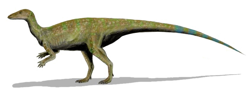 Thescelosaurus neglectus, an hypsilophodont from North America, version with scutes and rib plates, pencil drawing